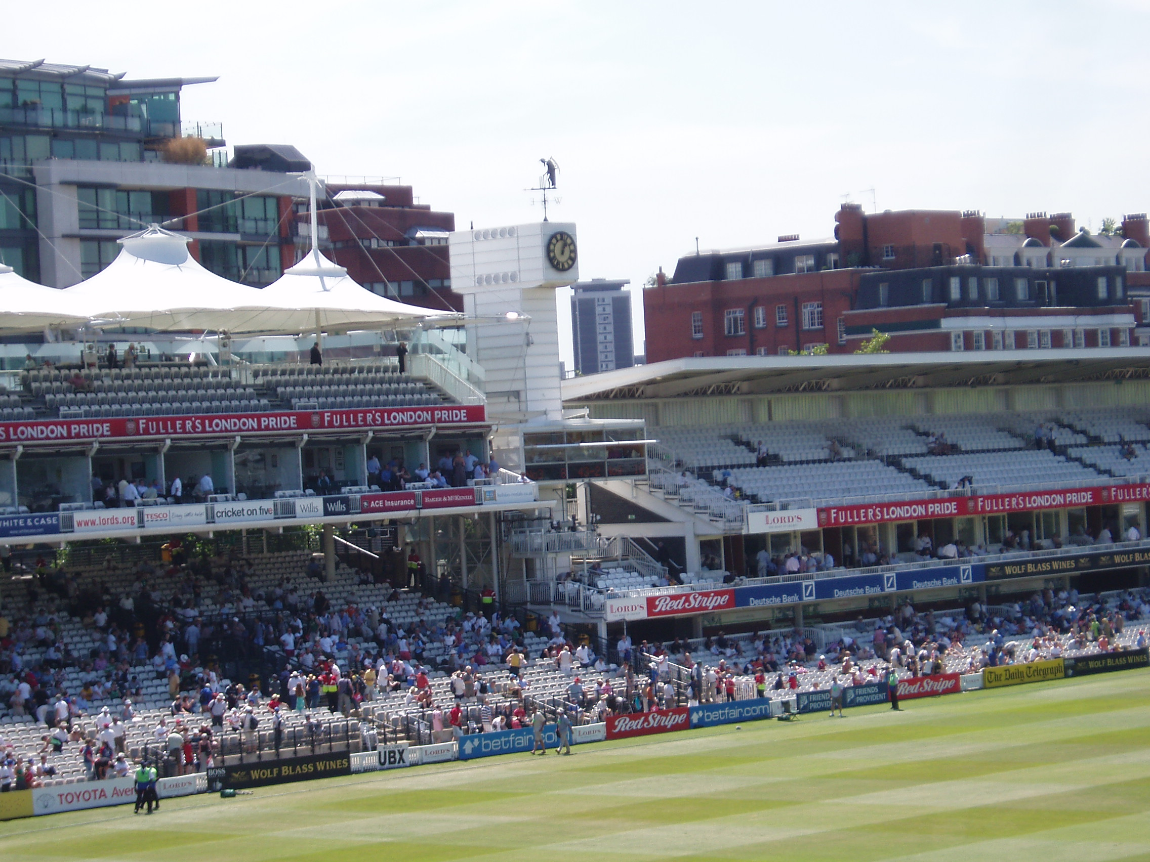 The stands towards the southern end of Lord's Cricket Ground - the Mound Stand on the left and the Tavern Stand on the right, with the Father Time weather vane in between.